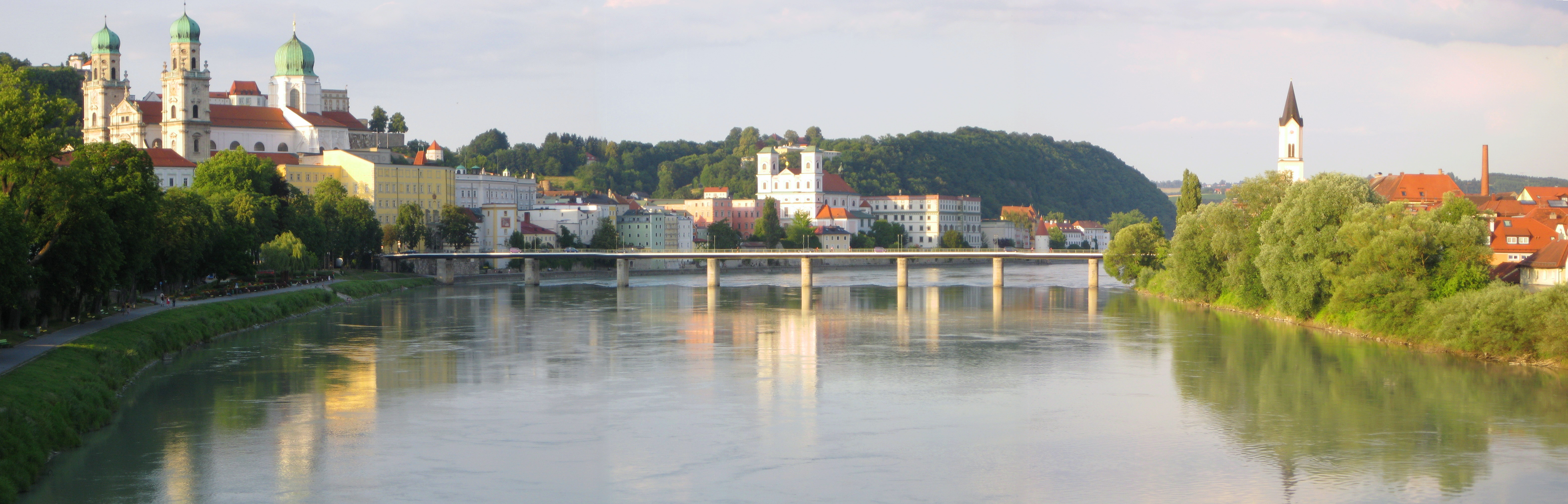 The Inn in Passau